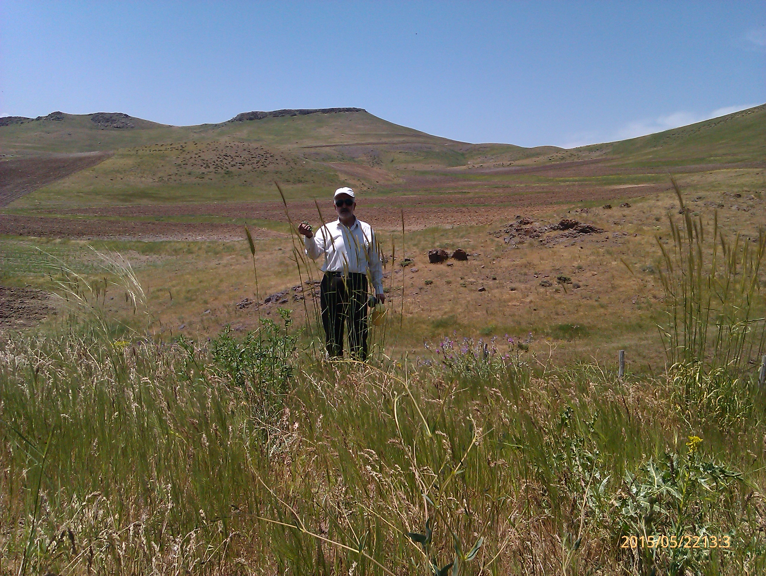 چیدن اویشن در روستای شاه تپه قزوین